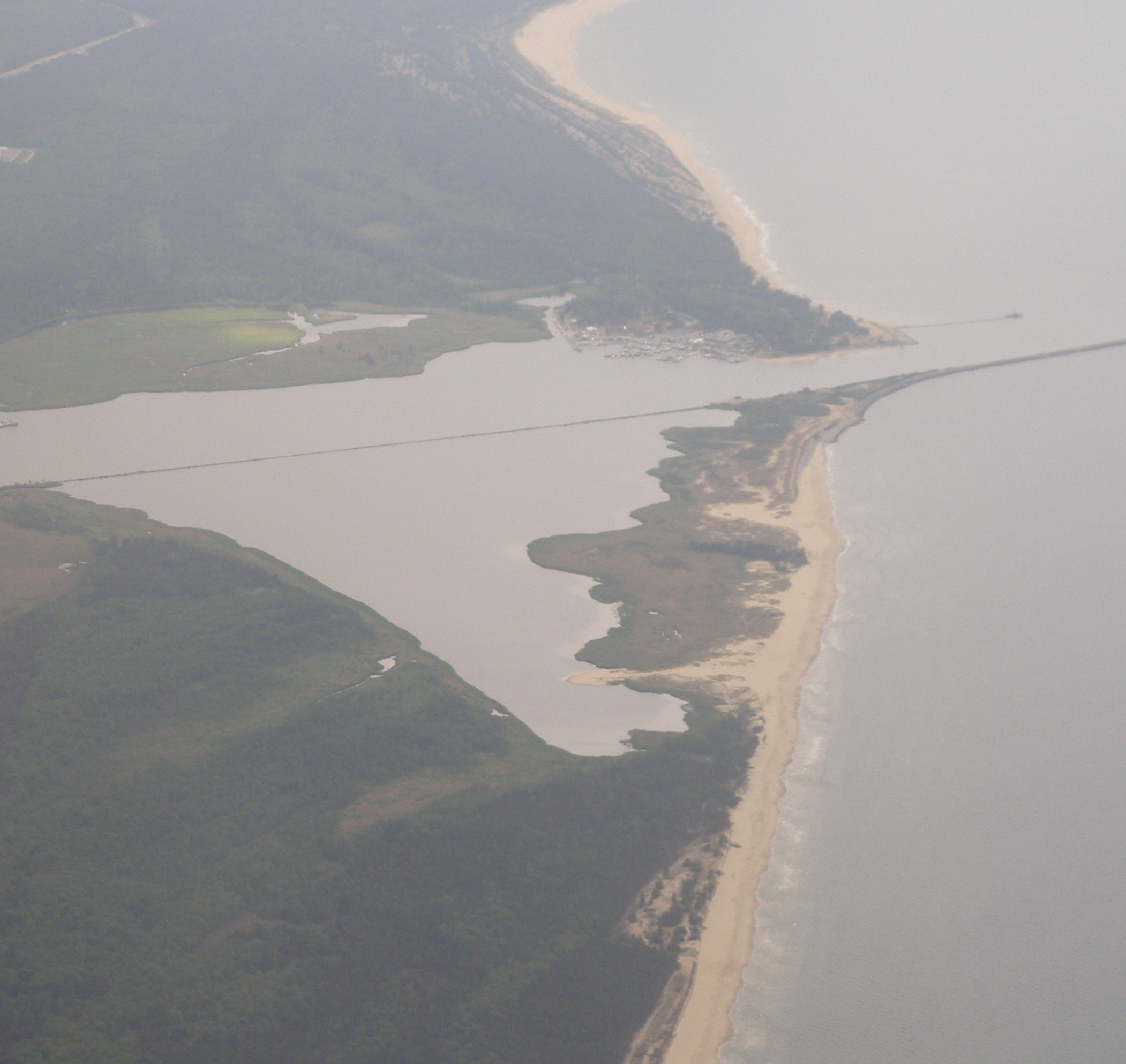 Gdańsk - estuary of the Wisła Śmiała and Gdańsk subdivisions of Górki Zachodnie and Górki Wschodnie with Ptasi Raj nature reserve